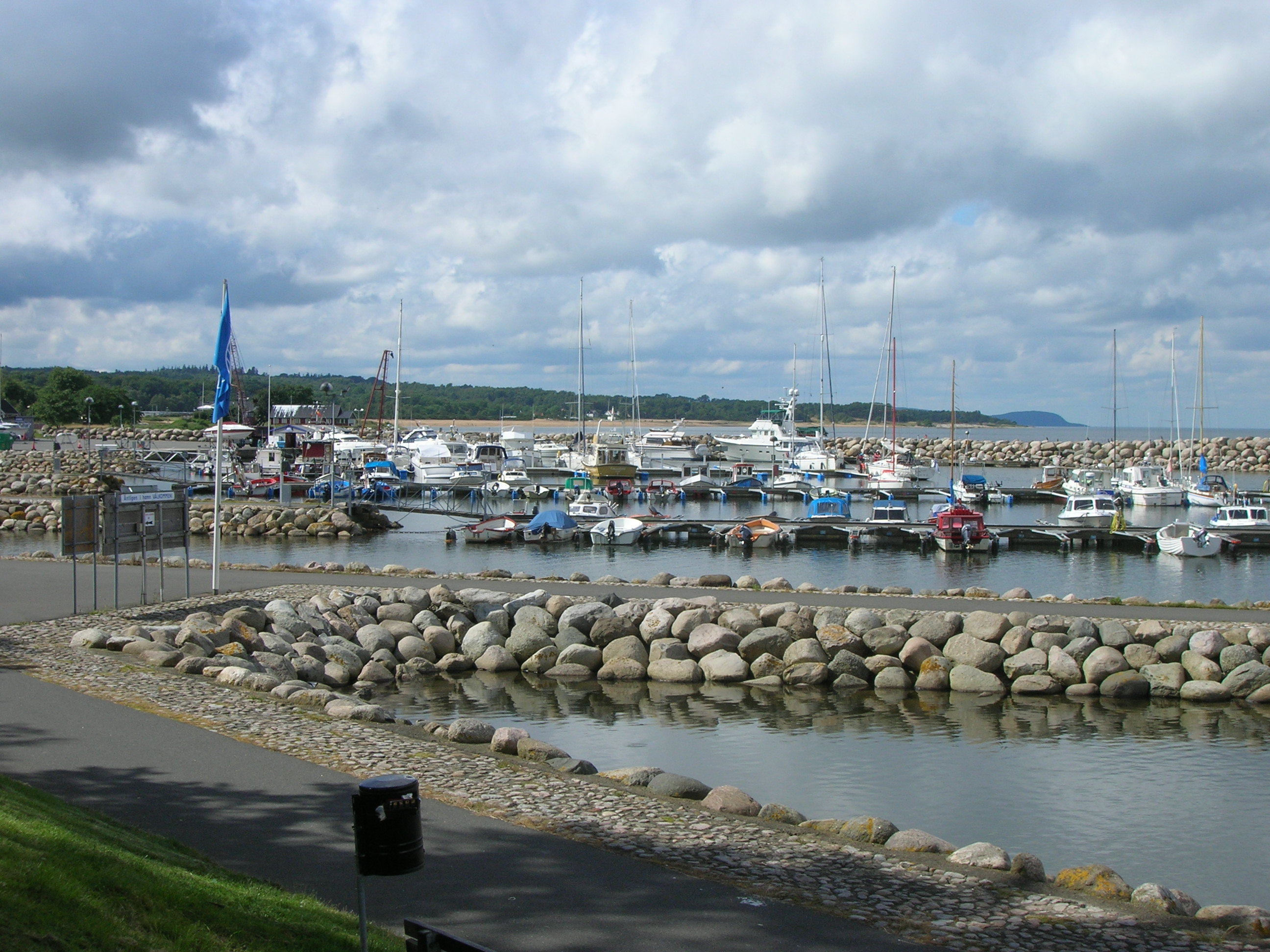 Simrishamn harbour.